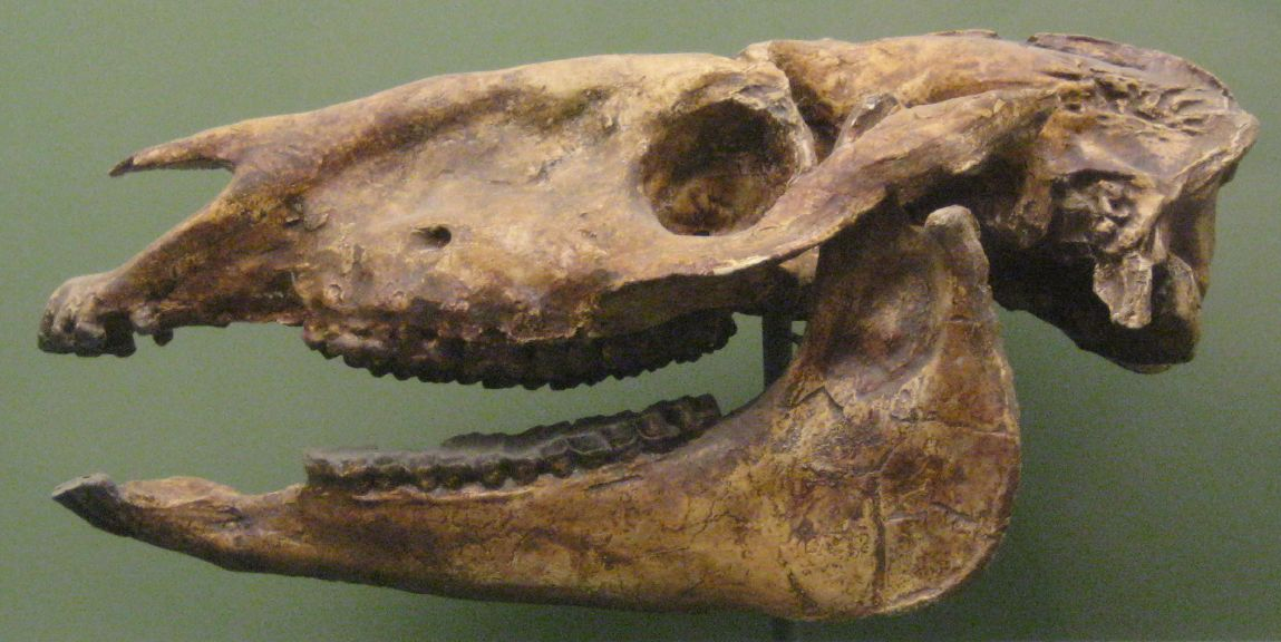 23 million years old Early Miocene